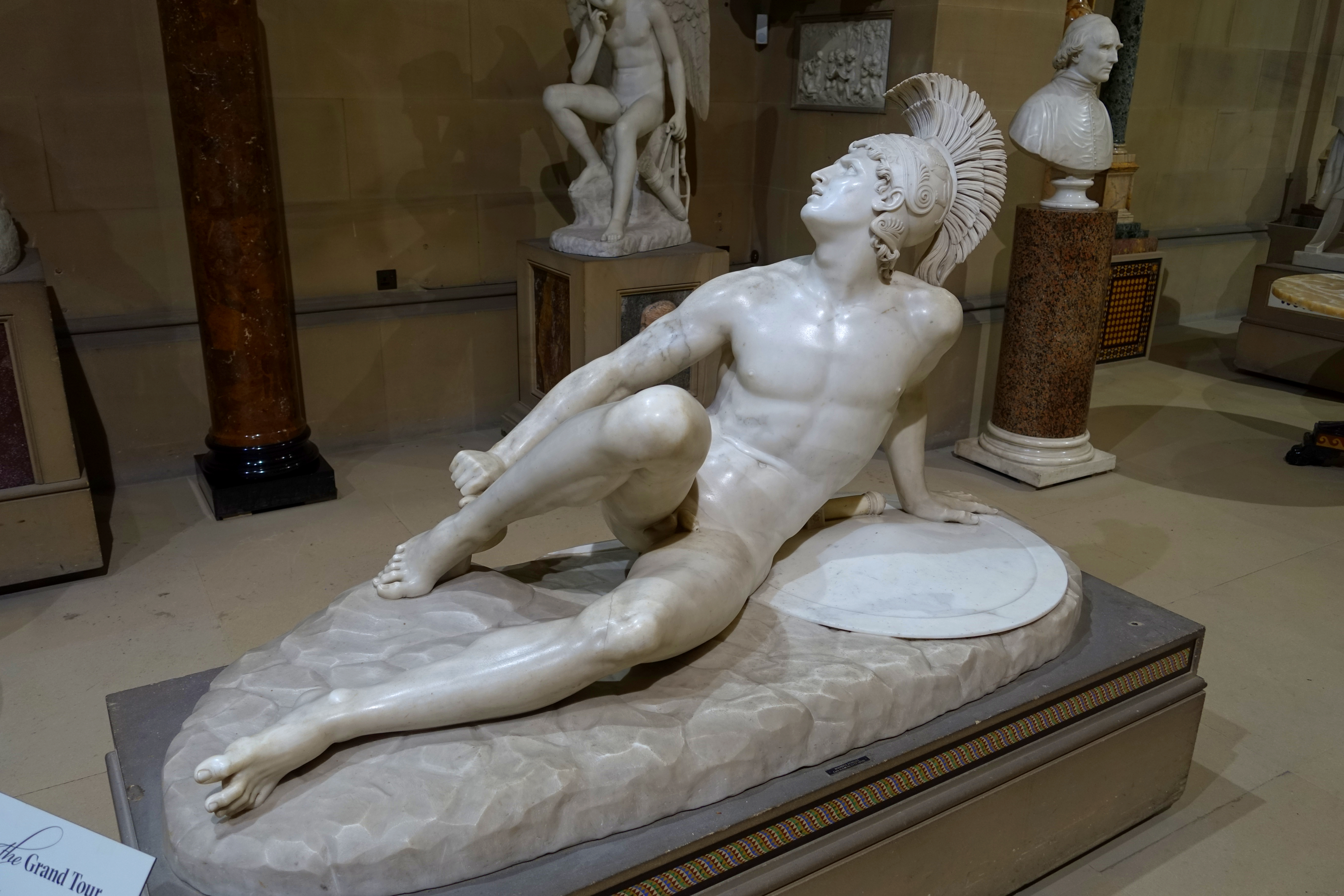 Sculpture in the Sculpture Gallery, Chatsworth House - Derbyshire, England.